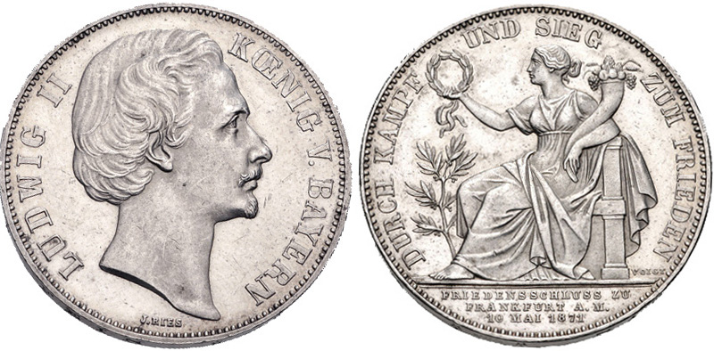 GERMANY, Bayern. Ludwig II. 1864-1886. AR Taler (34mm, 18.52 g, 12h). Commemorating the German victory in the Franco-Prussian War. Dated 10 May 1871. Bare head right / Victory seated left, holding wreath and cornucopia; laurel branch to left. Davenport 615; KM 889. Near EF, hairline scratches. Cleaned.